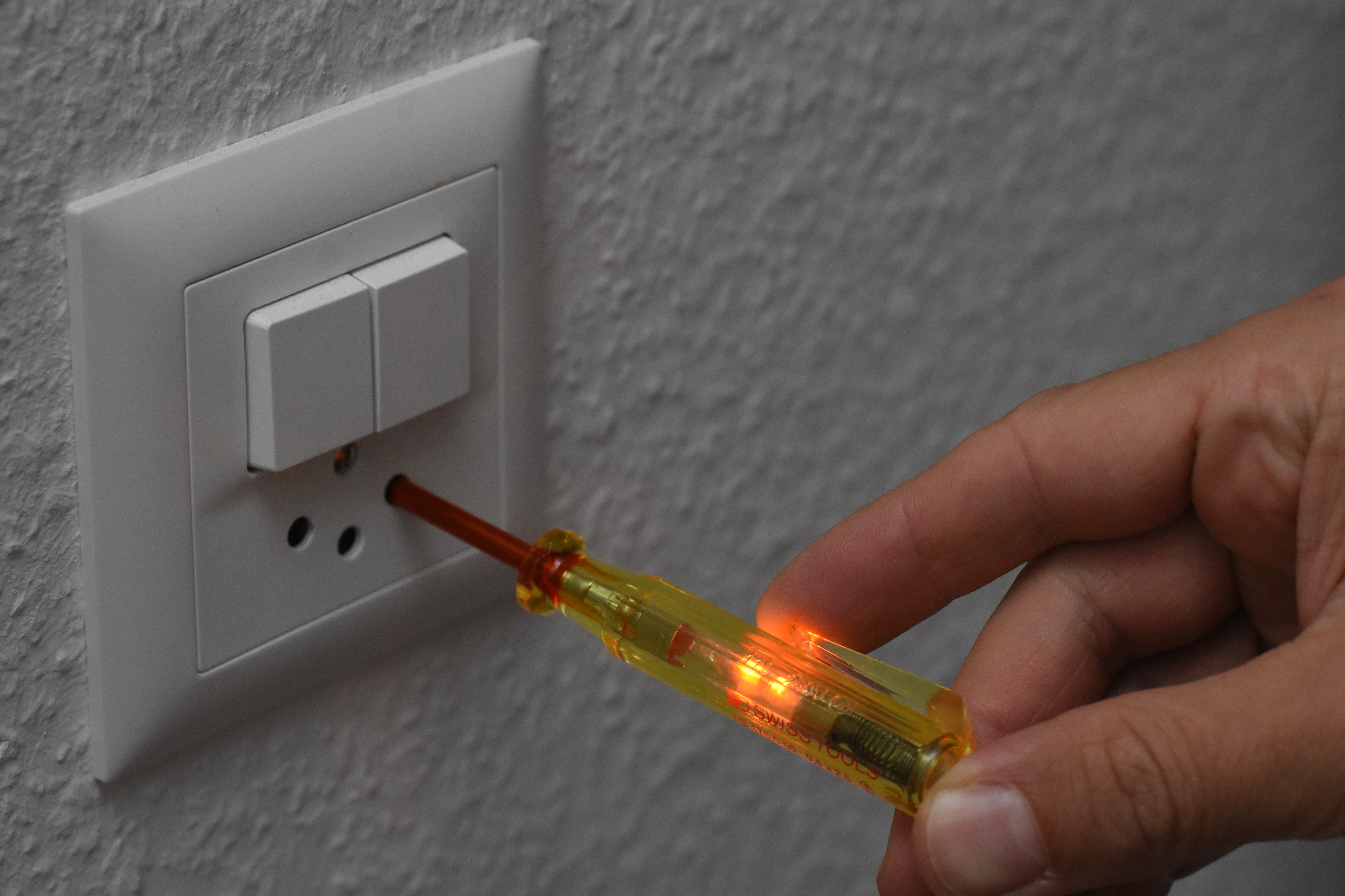 A test light by PB Swiss Tools for AC current. The circuit is closed by touching the contact on the end of the tester.